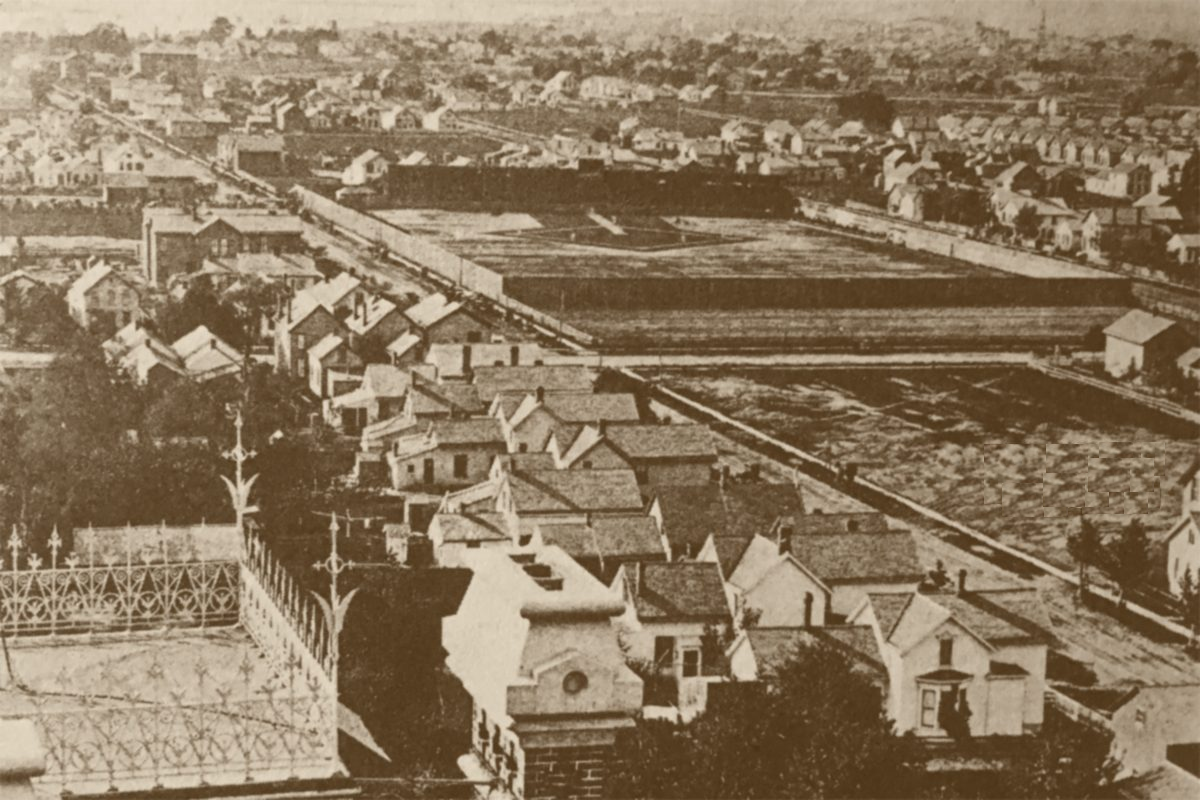 A photograph of Riverside Park, home of the National League's Buffalo Bisons